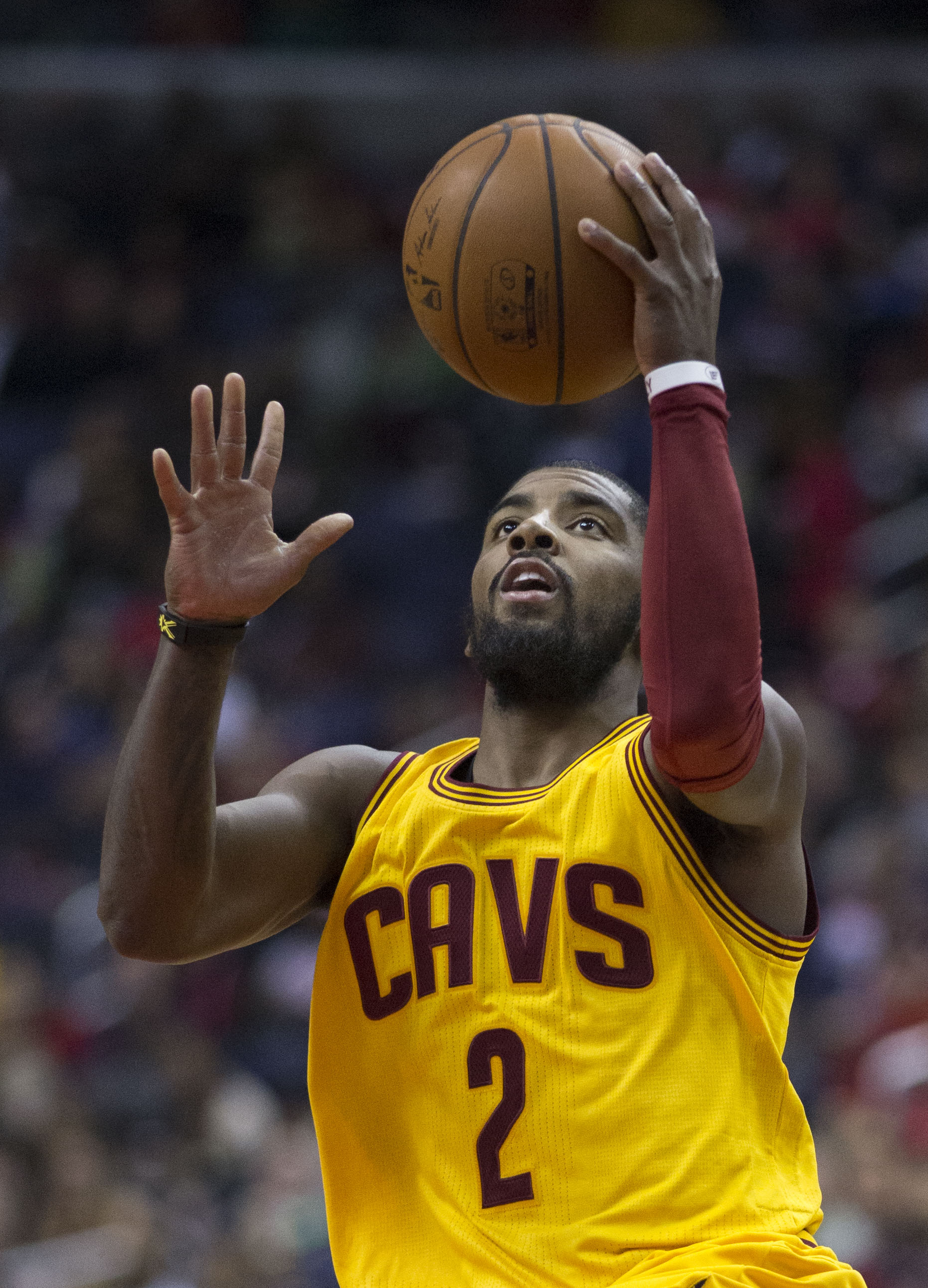 Kyrie Irving of the Cleveland Cavaliers in a game against the Washington Wizards at Verizon Center on November 21, 2014 in Washington, DC.